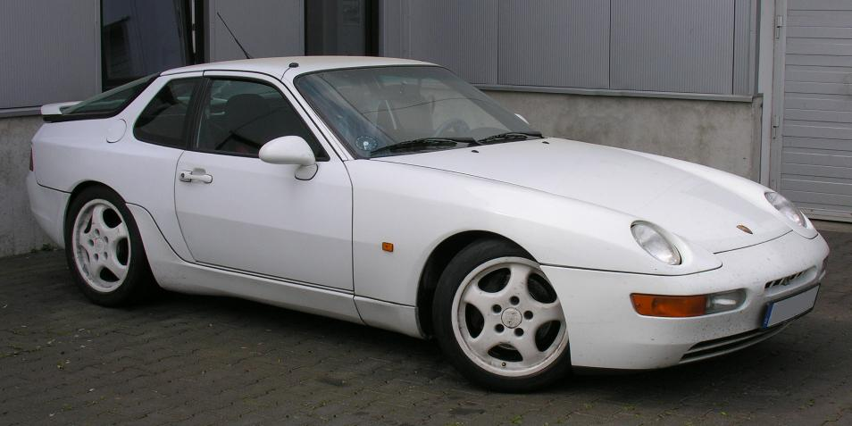 White Porsche 968 CS view from side in Rheinbach, Germany.